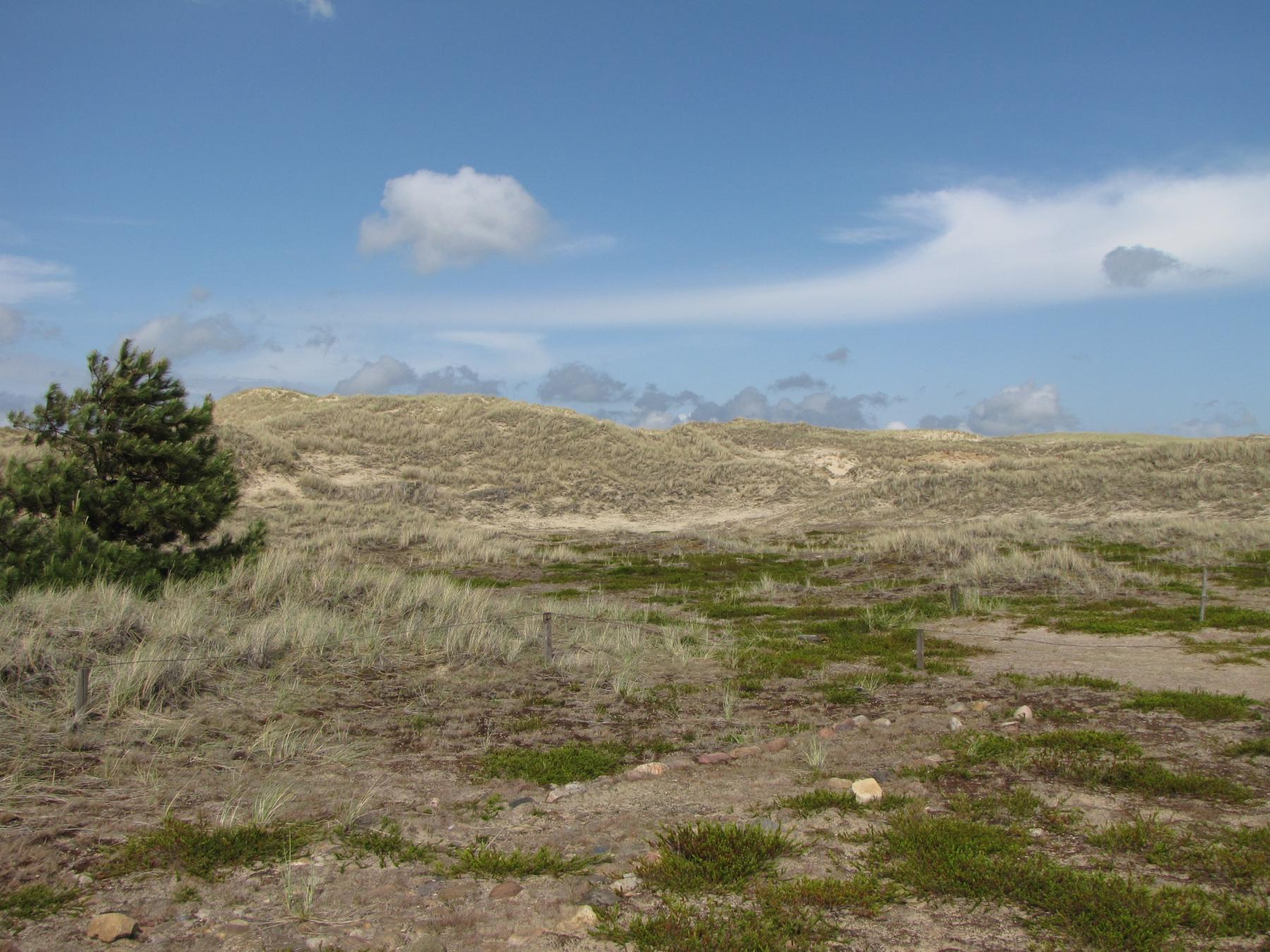 Germany / North Sea / Island Amrum: excavation of a village from Christi birth